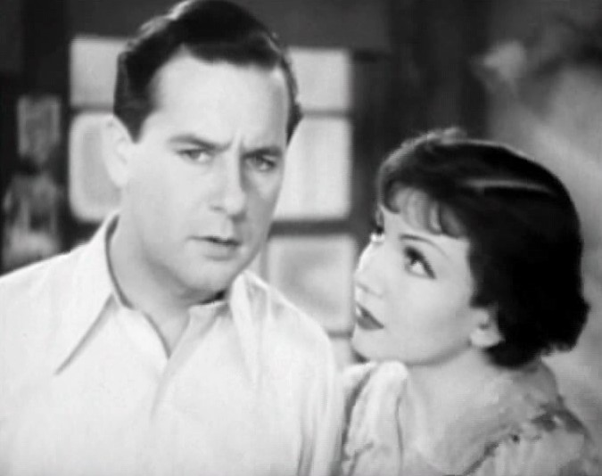 Cropped screenshot of Ben Lyon and Claudette Colbert from the film I Cover the Waterfront (1933).